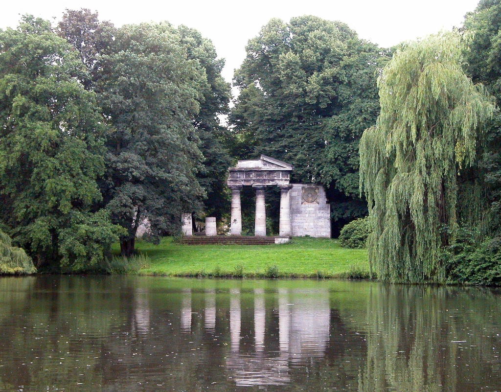 Braunschweig, Germany: Portico by Peter Joseph Krahe with pond in the Bürgerpark (Citizens’ Park).